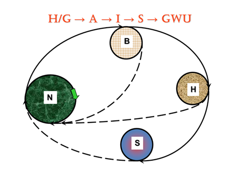 This picture is used to illustrate the core concept of "Customization" and Relocalization" in the article "Transformation in Economics" written by Professor Milan Zeleny